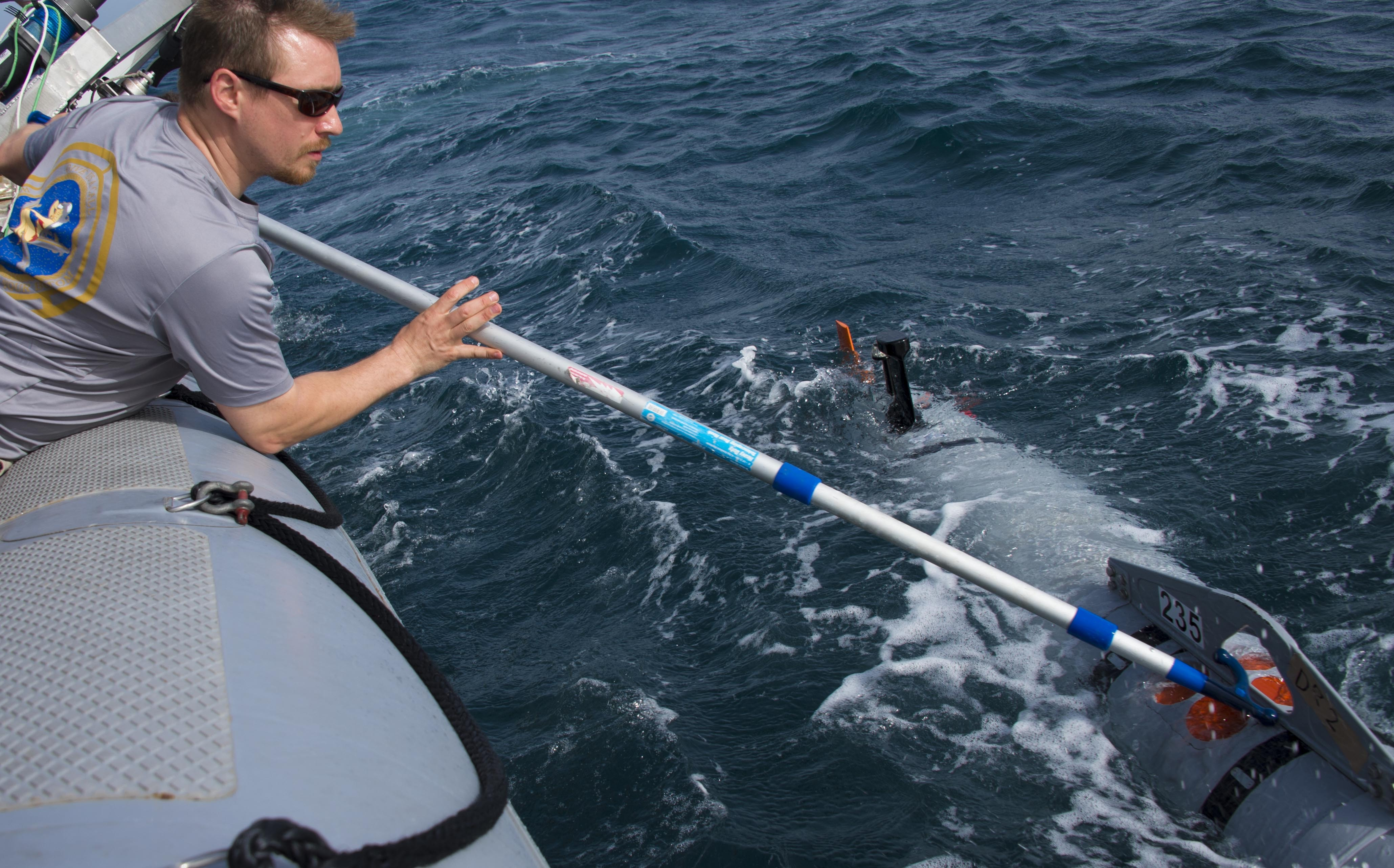 An unmanned underwater vehicle (UUV) operator uses a boat hook to recover a UUV after a successful run during International Mine Countermeasures Exercise (IMCMEX) 13 in the U.S. 5th Fleet area of operations May 17, 2013. IMCMEX is an international symposium and exercise designed to enhance cooperation, mutual maritime capabilities and long-term regional stability between the U.S. and its international partners.